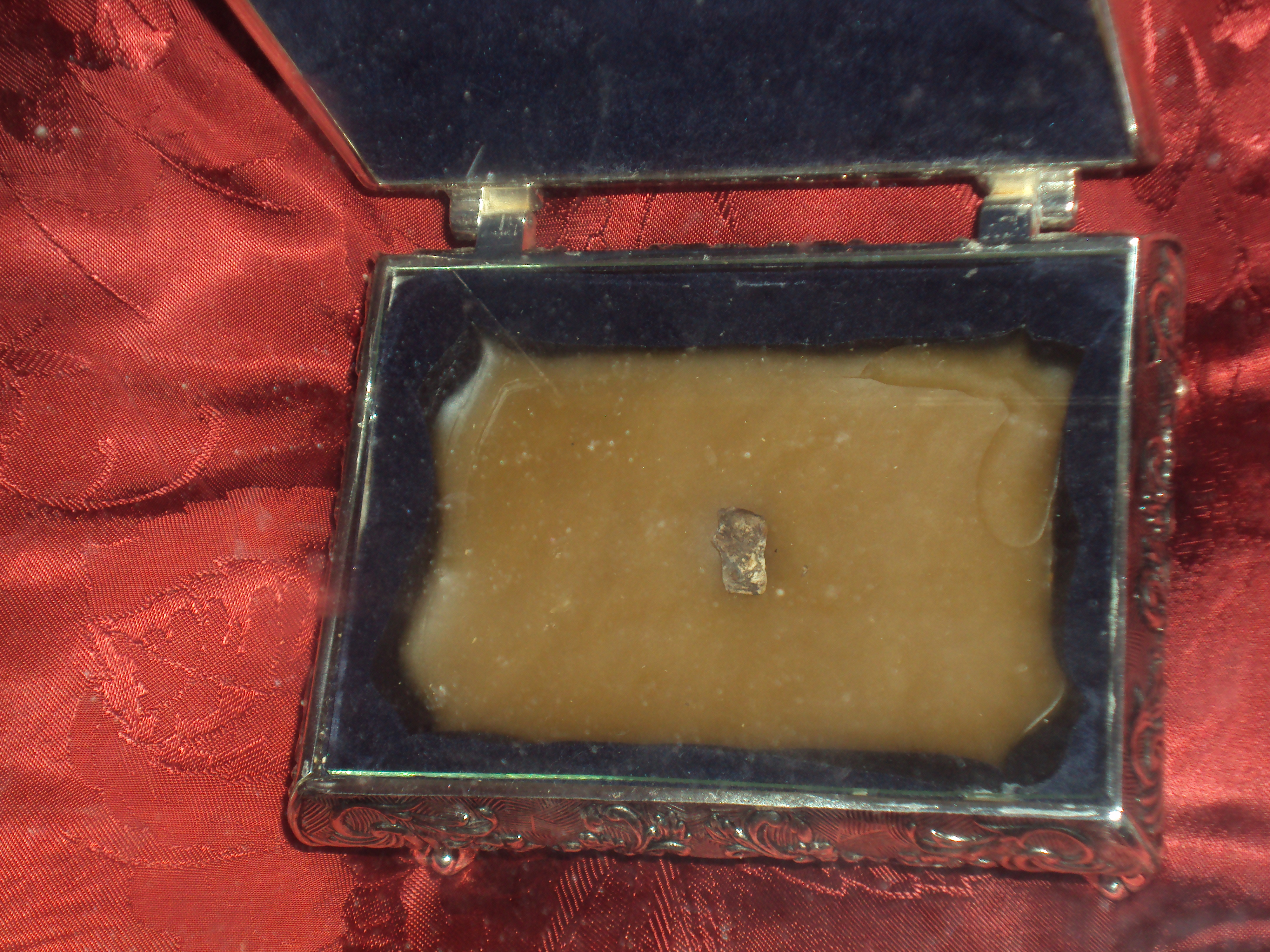 The old church "St Petka" in Breznik, Bulgaria